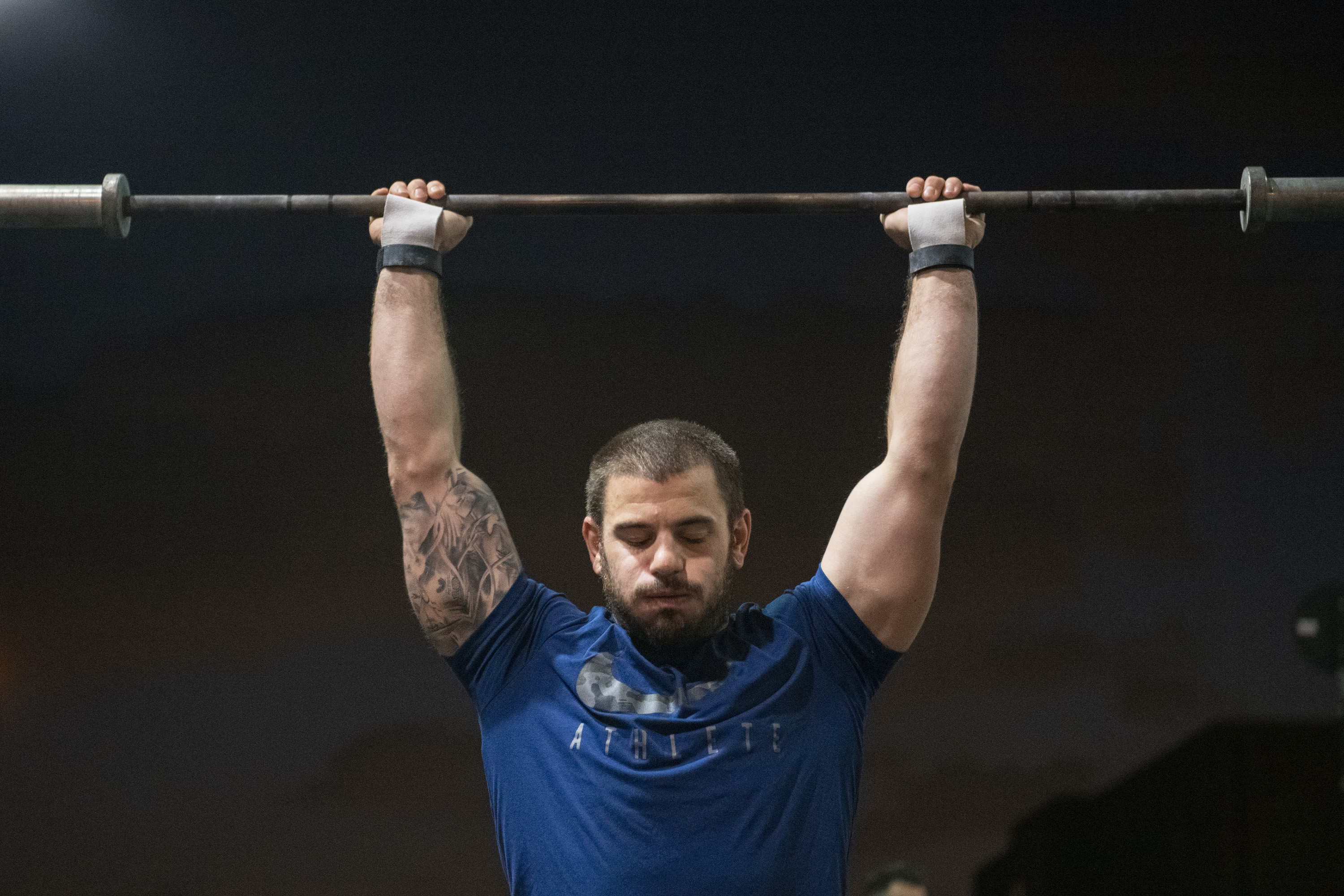 Marine Corps Gen. Joe Dunford, chairman of the Joint Chiefs of Staff, meets with deployed service members at Naval Support Activity Bahrain, Dec. 22, 2018. Dunford, along with USO entertainers, visited service members who are away from home during the holidays at various locations. This year’s entertainers include actors Milo Ventimiglia, Wilmer Valderrama, DJ J Dayz, Fittest Man on Earth Matt Fraser, 3-time Olympic Gold Medalist Shaun White, Country Music Singer Kellie Pickler, and comedian Jessiemae Peluso. (DoD photo by Navy Petty Officer 1st Class Dominique A. Pineiro)